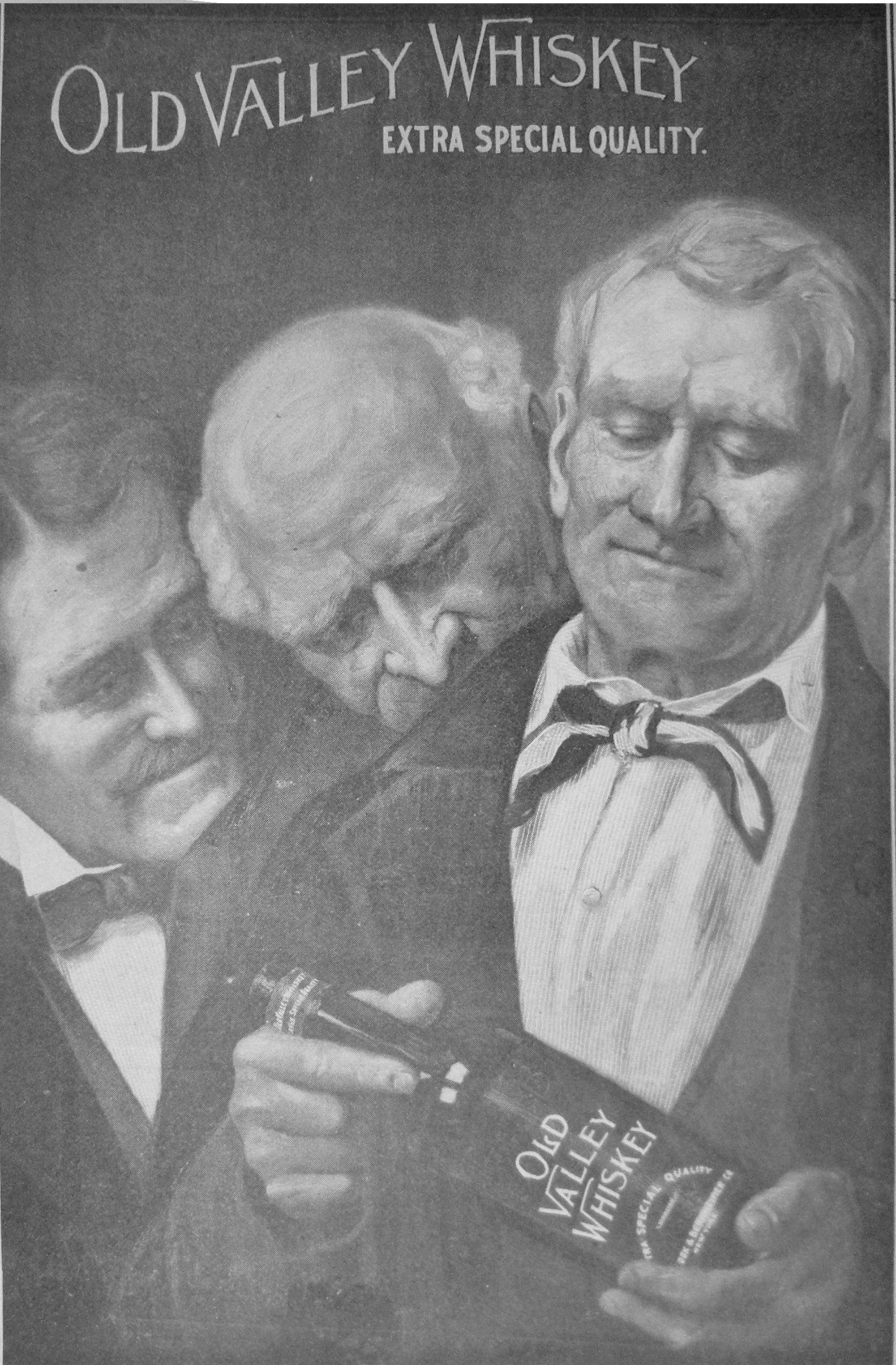 1905 ad for Old Valley Whiskey (part of an ad for distributor Continental Whiskey Company, Polk's Seattle City Directory, 1905).